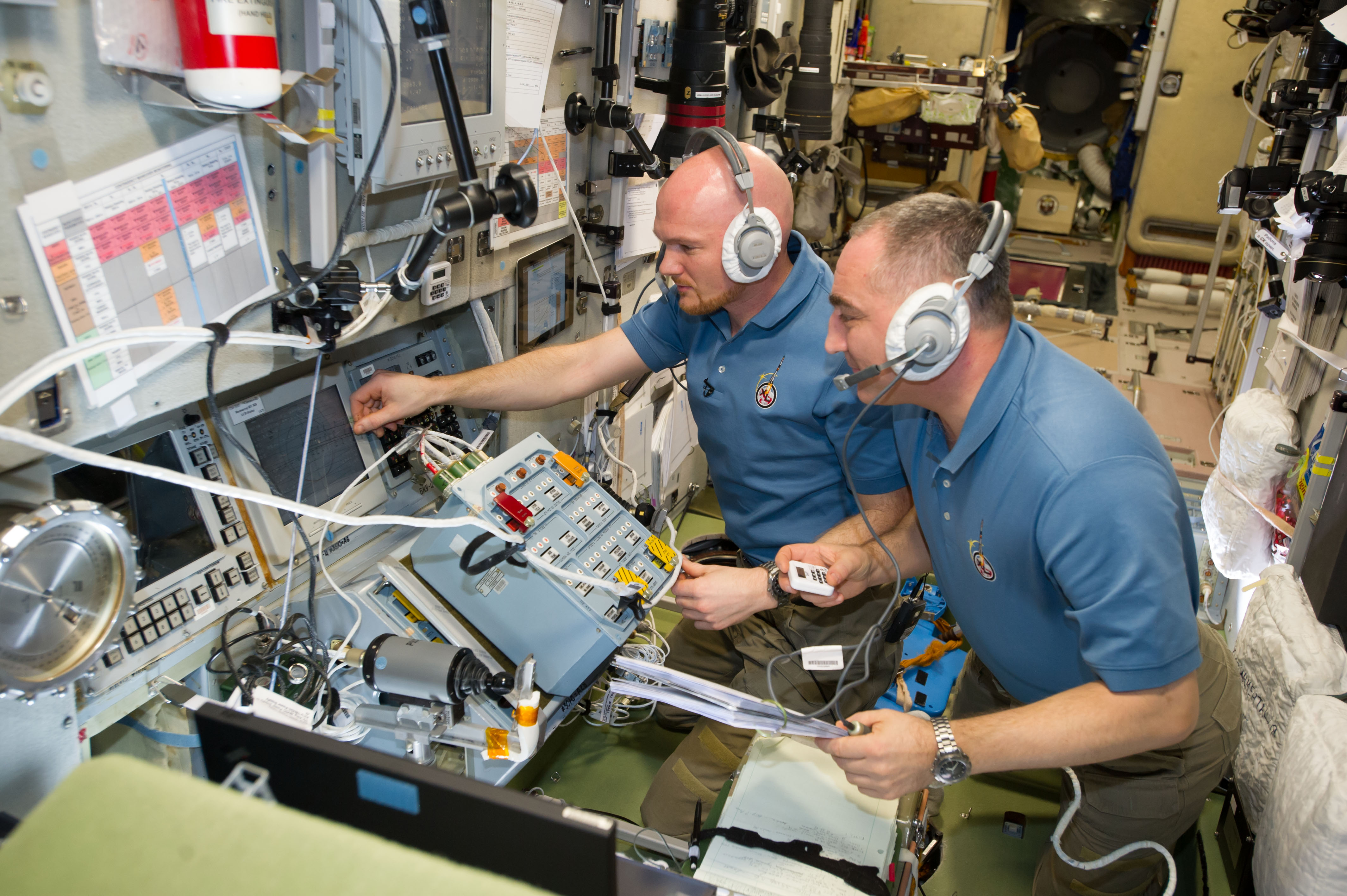 In the Zvezda Service Module, European Space Agency astronaut Alexander Gerst (left) and Russian cosmonaut Alexander Skvortsov, both Expedition 40 flight engineers, monitor the approach and docking of ESA's "Georges Lemaitre" Automated Transfer Vehicle-5 (ATV-5) to the International Space Station.